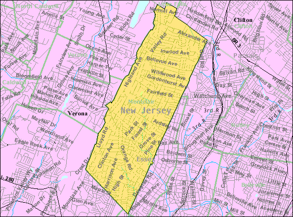 Census Bureau map of Montclair